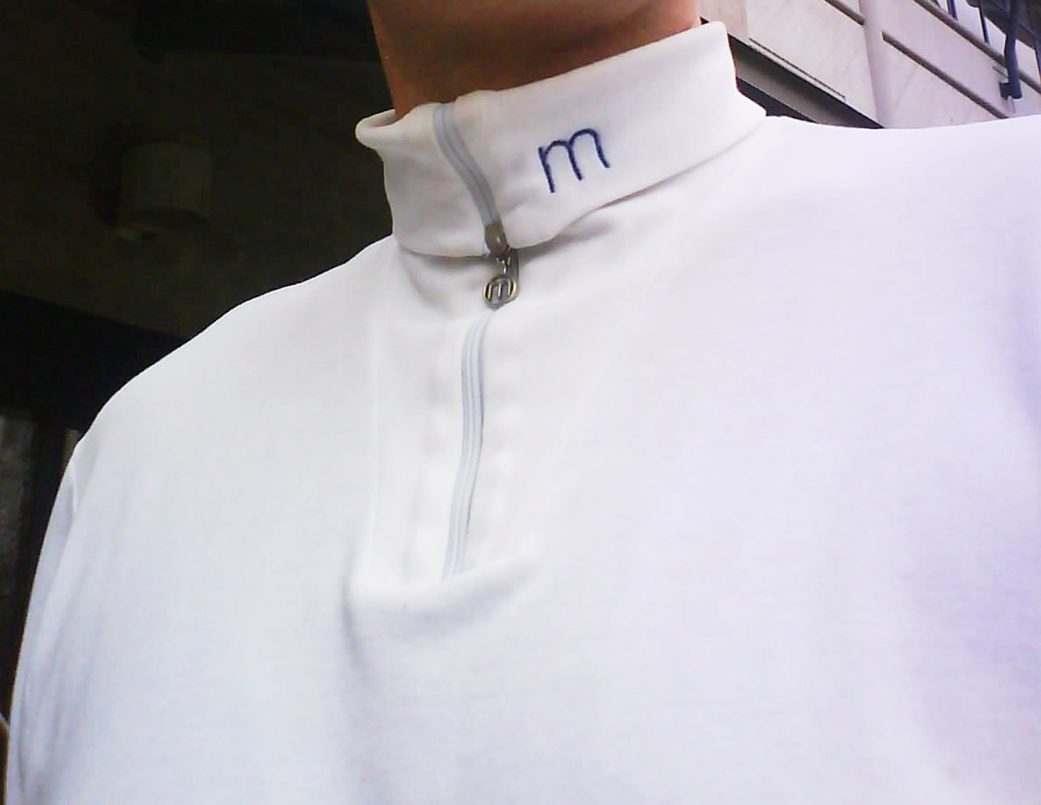 Mäser Turleneck